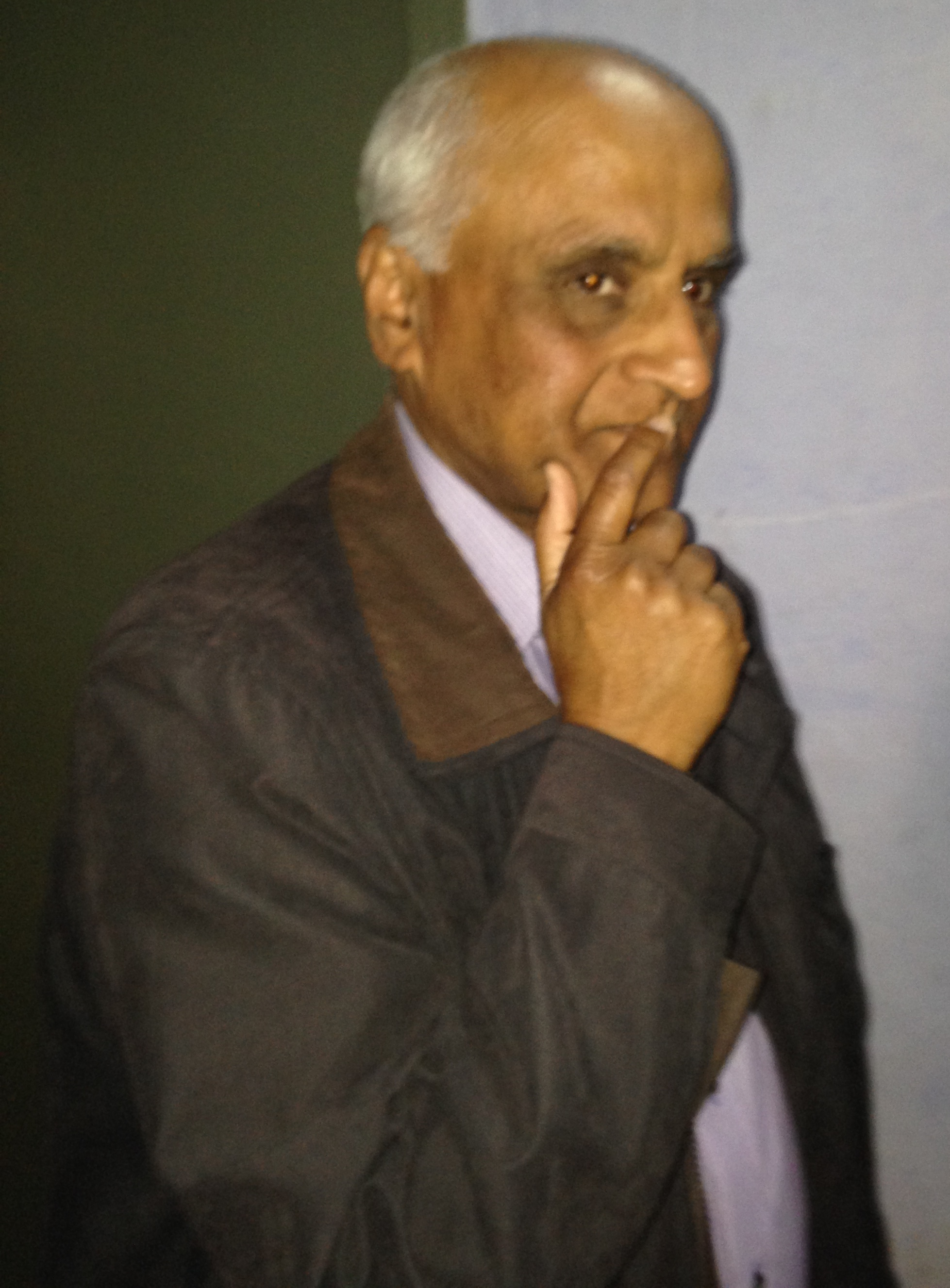 Punjabi Poetਪੰਜਾਬੀ: ਪੰਜਾਬੀ ਕਵੀ